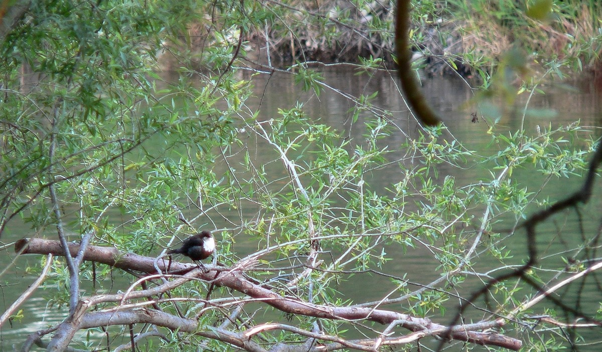 Cinclus cinclus aquaticus at River Argen in Baden-Württemberg.